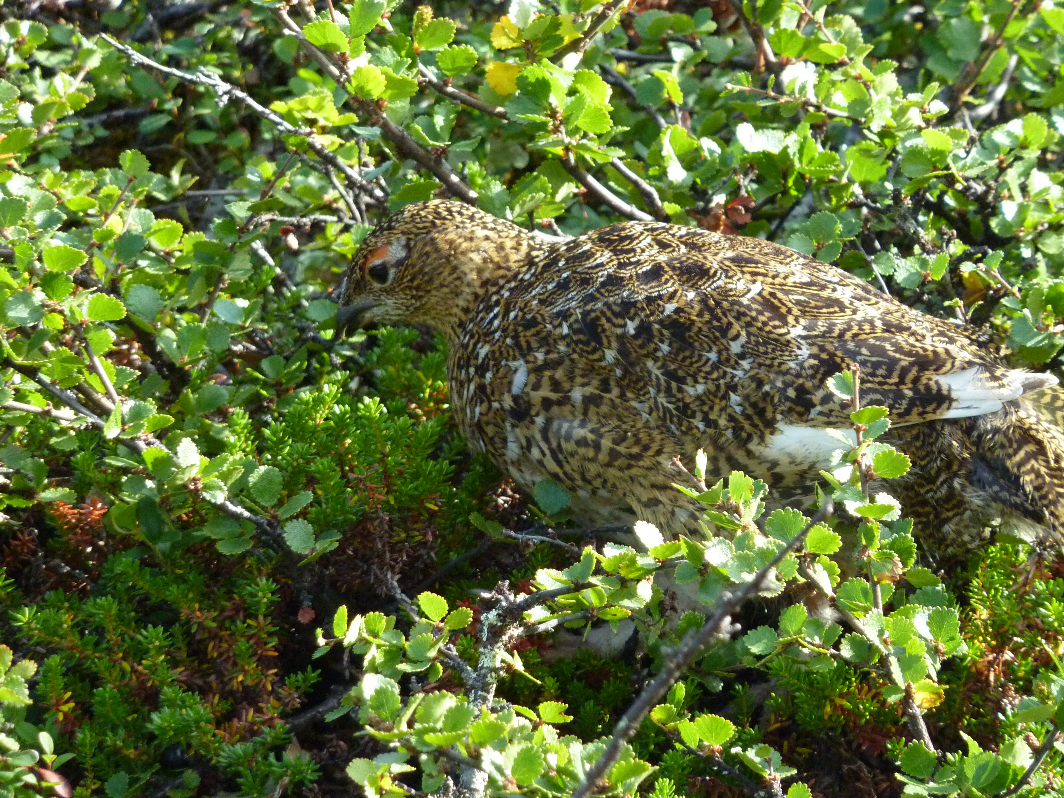 Male Lagopus lagopus lagopus in summer plumage, near Abiskojaure lake, along Kungsleden